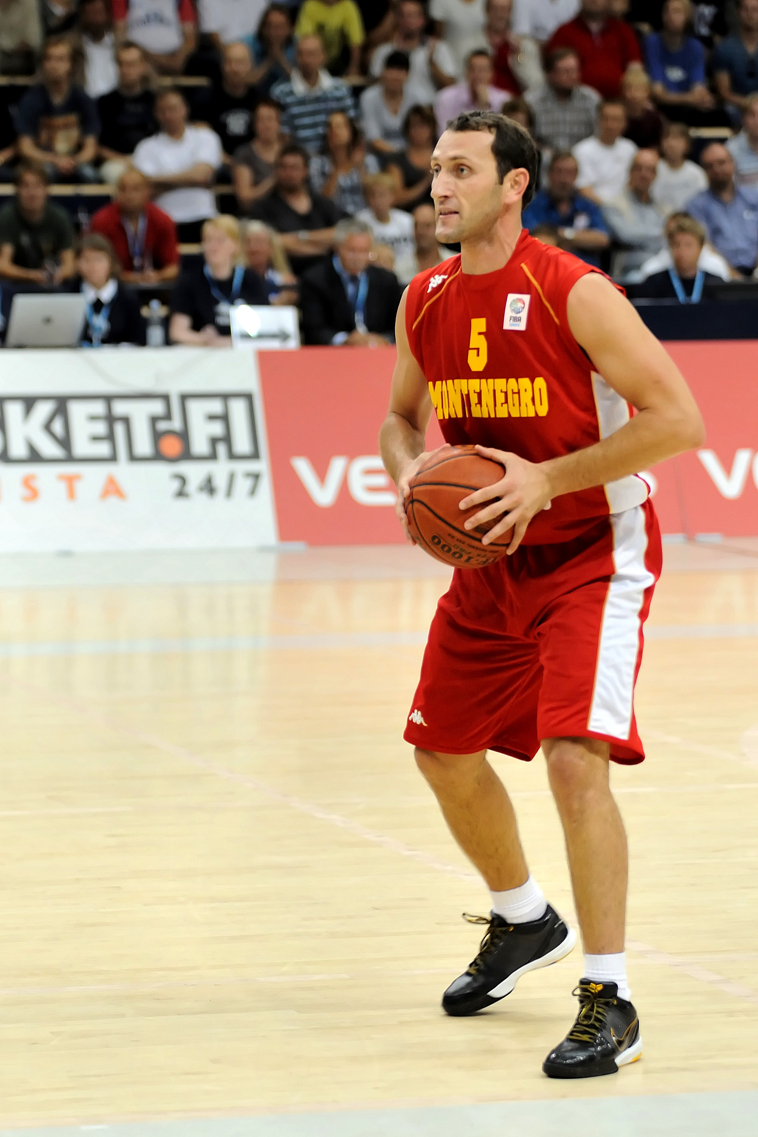 Basketball player Goran Jeretin playing for Montenegro against Finland at Energia Arena in Vantaa, Finland. Montenegro won the game.